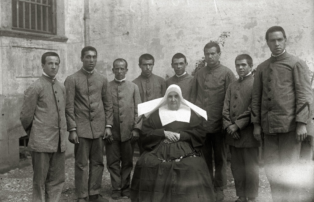 Inmates of Ondarreta prison with mother superior in Donostia, Basque Country